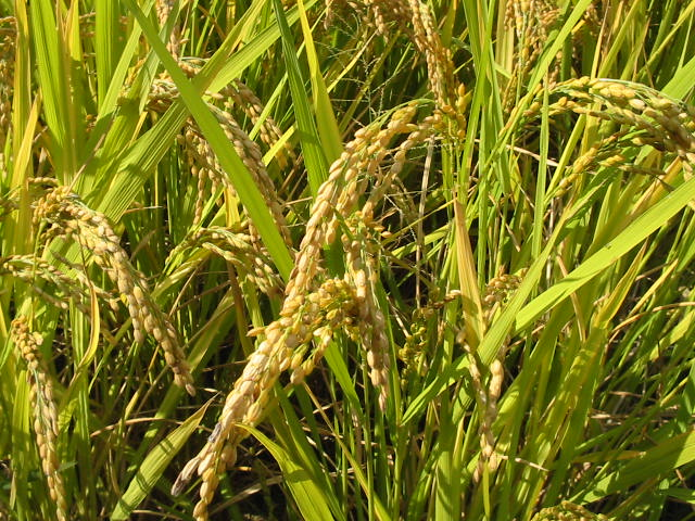 Note Harvested Hinohikari - a variation of Japanese short-grain rice.